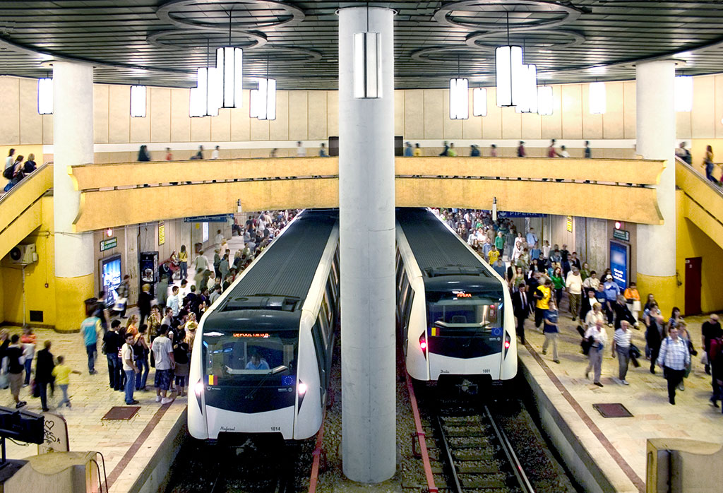 Trains at Piata Victoriei